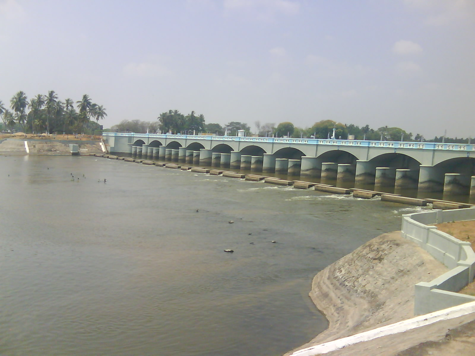 Grand Anaicut, Built by Karikala Chola